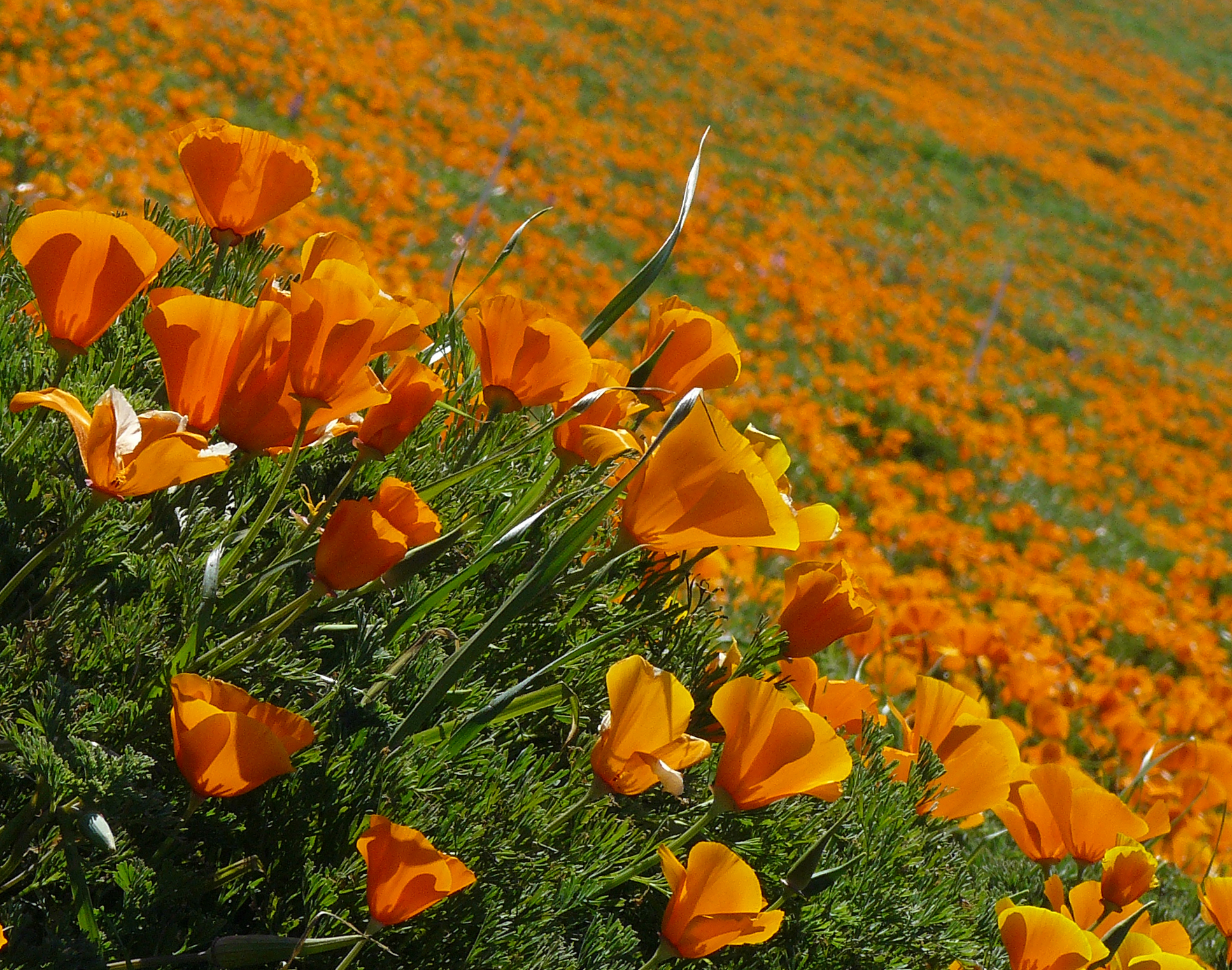 Eschscholzia californica, Antelope Valley California Poppy Reserve.